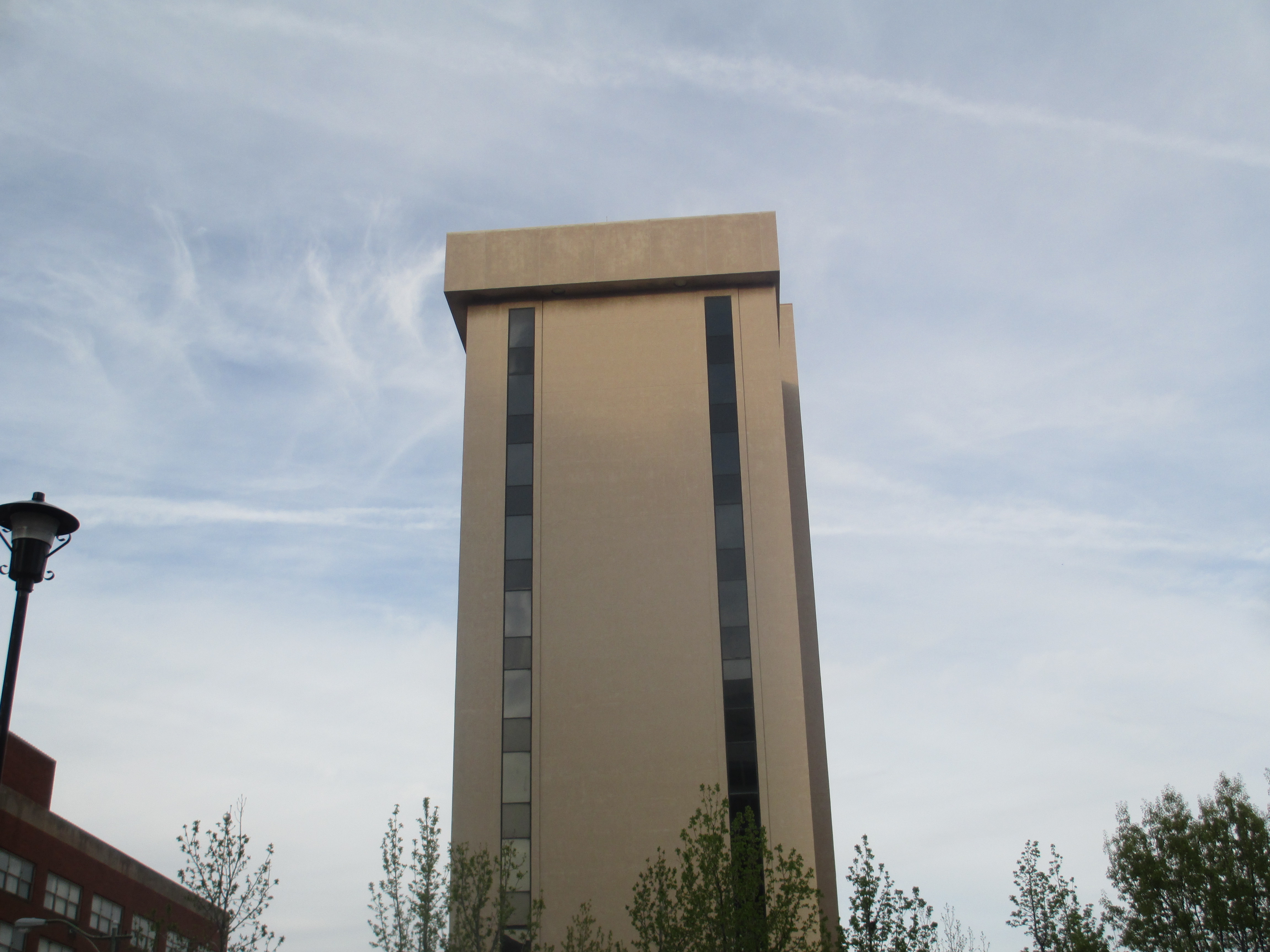 I took photo of side shot of Wichita Tower office building in downtown Wichita Falls, TX, with Canon camera, April 5, 2013. Billy Hathorn (talk) 16:00, 10 April 2013 (UTC)